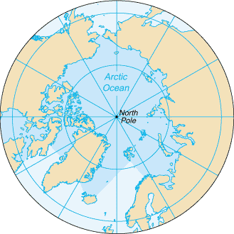 Arctic Ocean map with English captions showing the North Pole